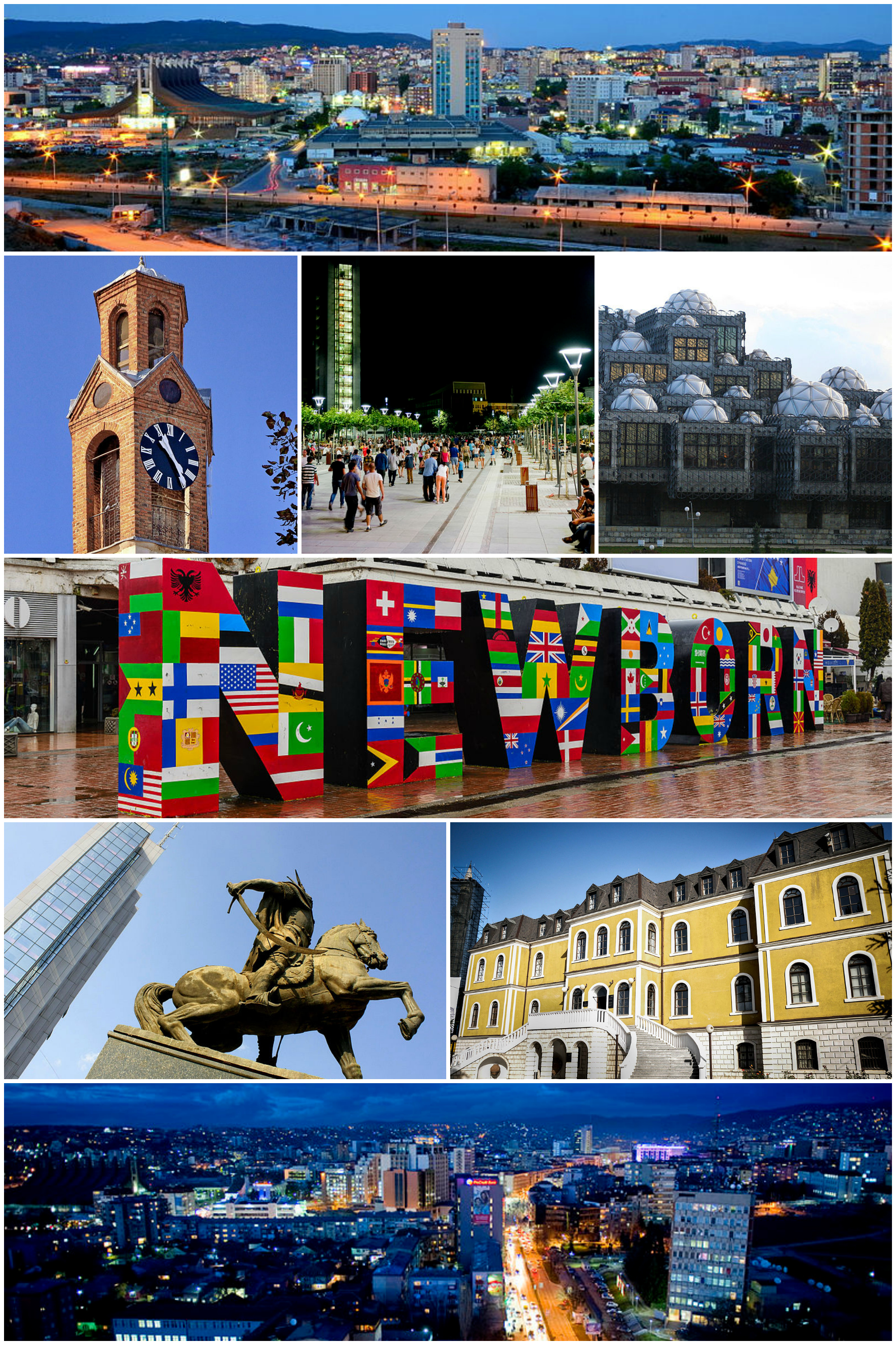 New collage of Prishtina